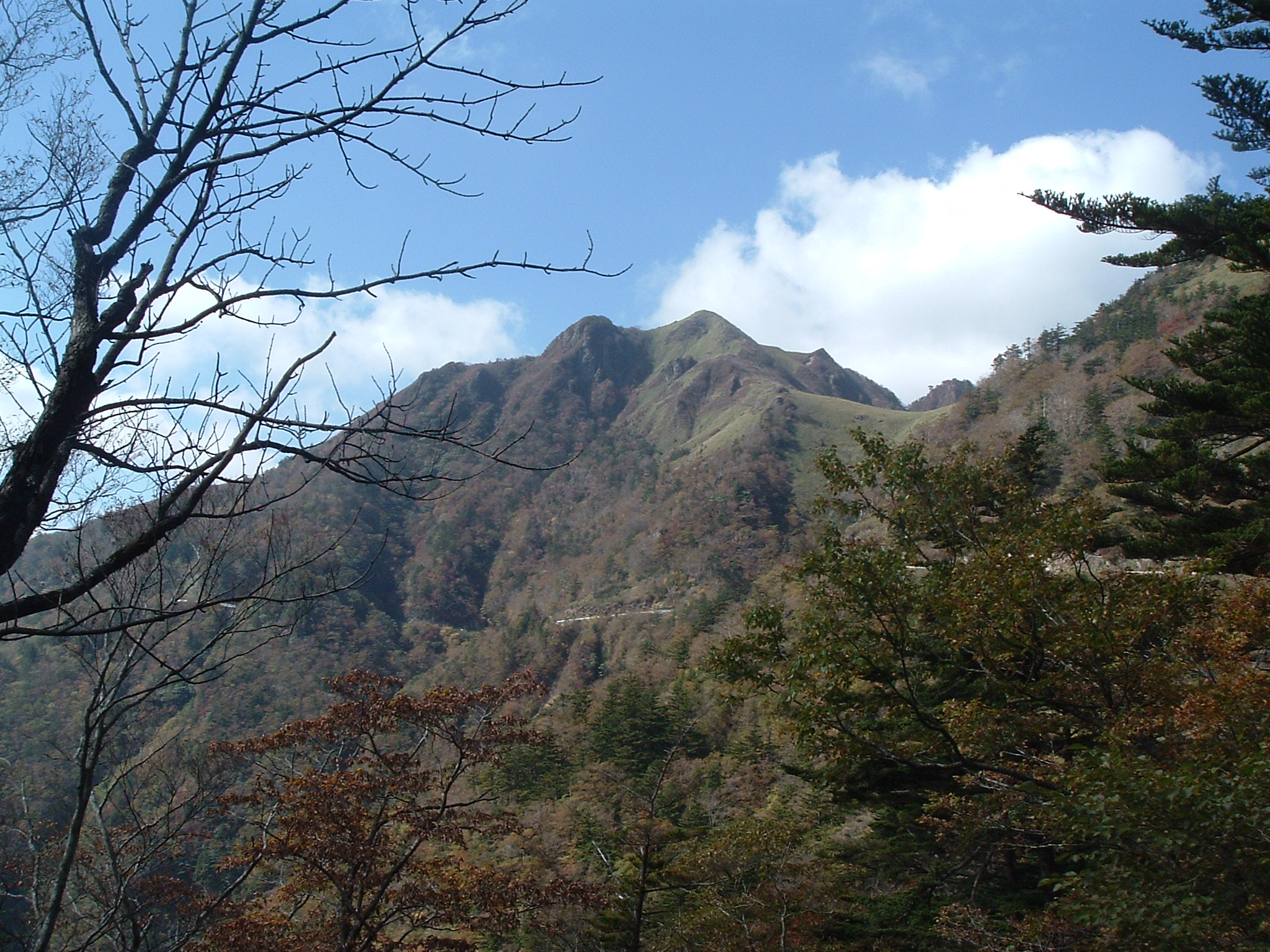 Mt.Iyofuji